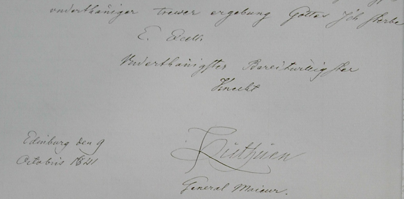 There is no known portrait of Major General John Ruthven. Here he signs a letter to Axel Oxenstierna from Edinburgh in 1641. The letter is from Riksarkivet (Stockholm), Oxenstiernska Samlingen